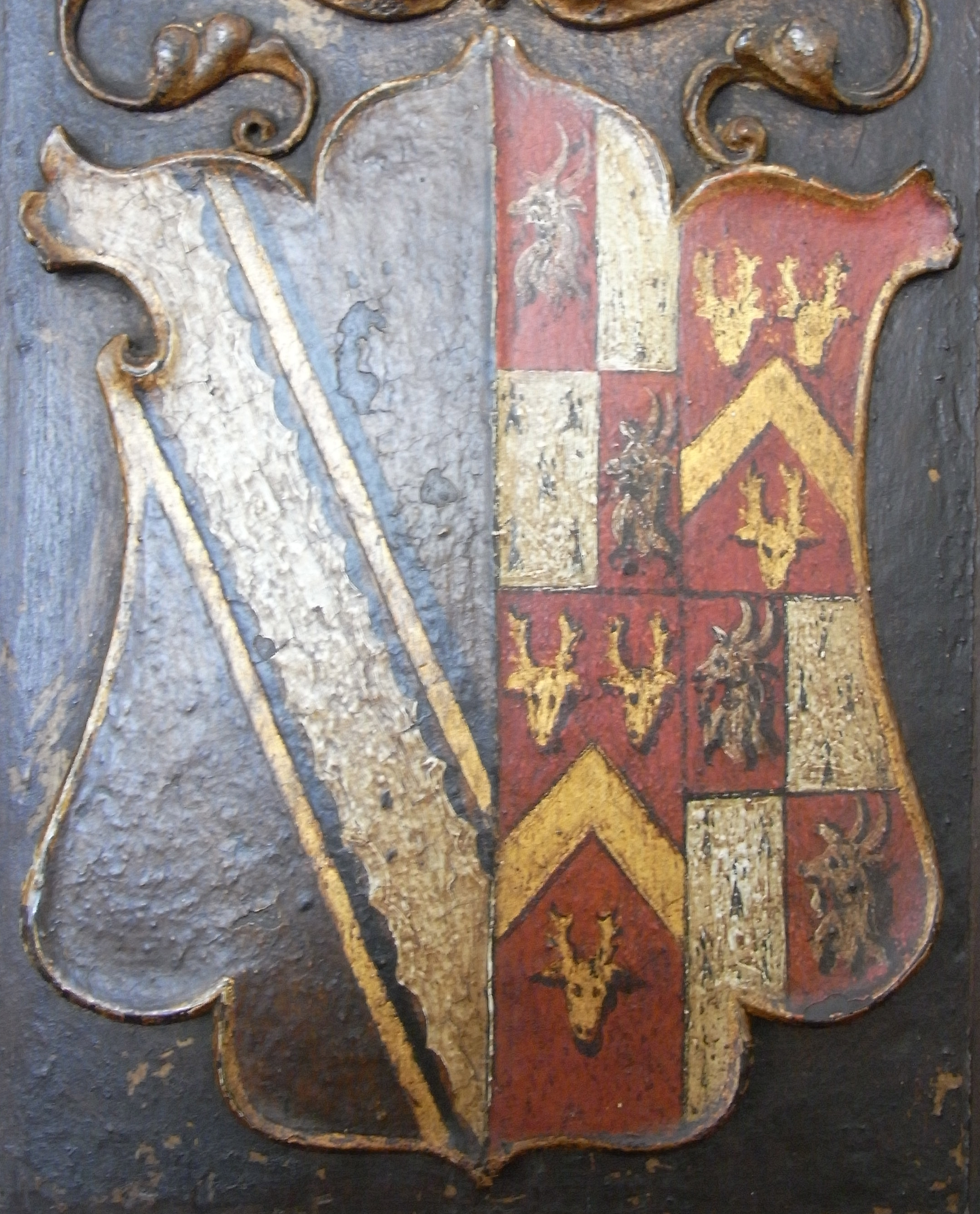 Arms of Richard Fortescue (d.1570) of Filleigh. Detail from overmantel now at Simonsbath House, Exmoor, originally at Weare Giffard Hall, Devon. Impalement as follows: Baron: Fortescue, Femme: Quarterly 1st & 4th: Morton, 2nd & 3rd Hagget, per hand written framed note c.1900 written by member of Fortescue family